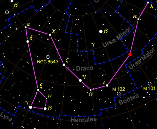 The star Thuban in the Draco constellation